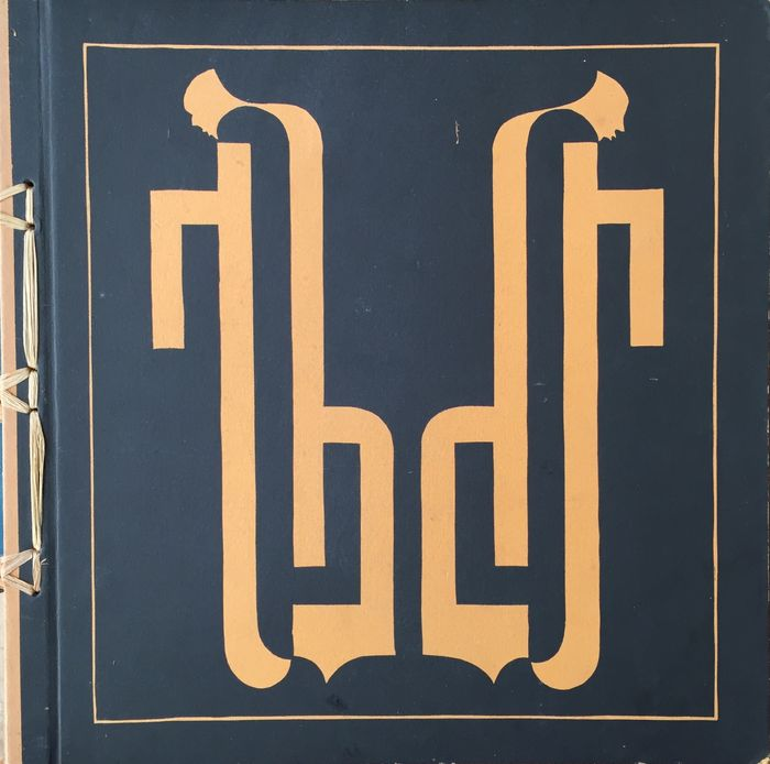 Cover of Dutch art magazine Wendingen, July-Aug. 1921. Design by C.A. Lion Cachet